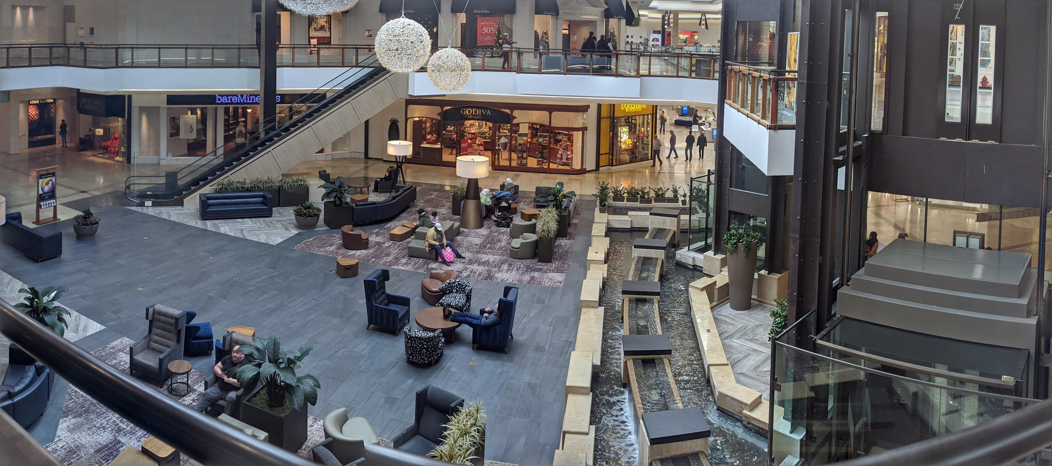 Fountain feature and soft seating area fronting the Neiman Marcus Anchor